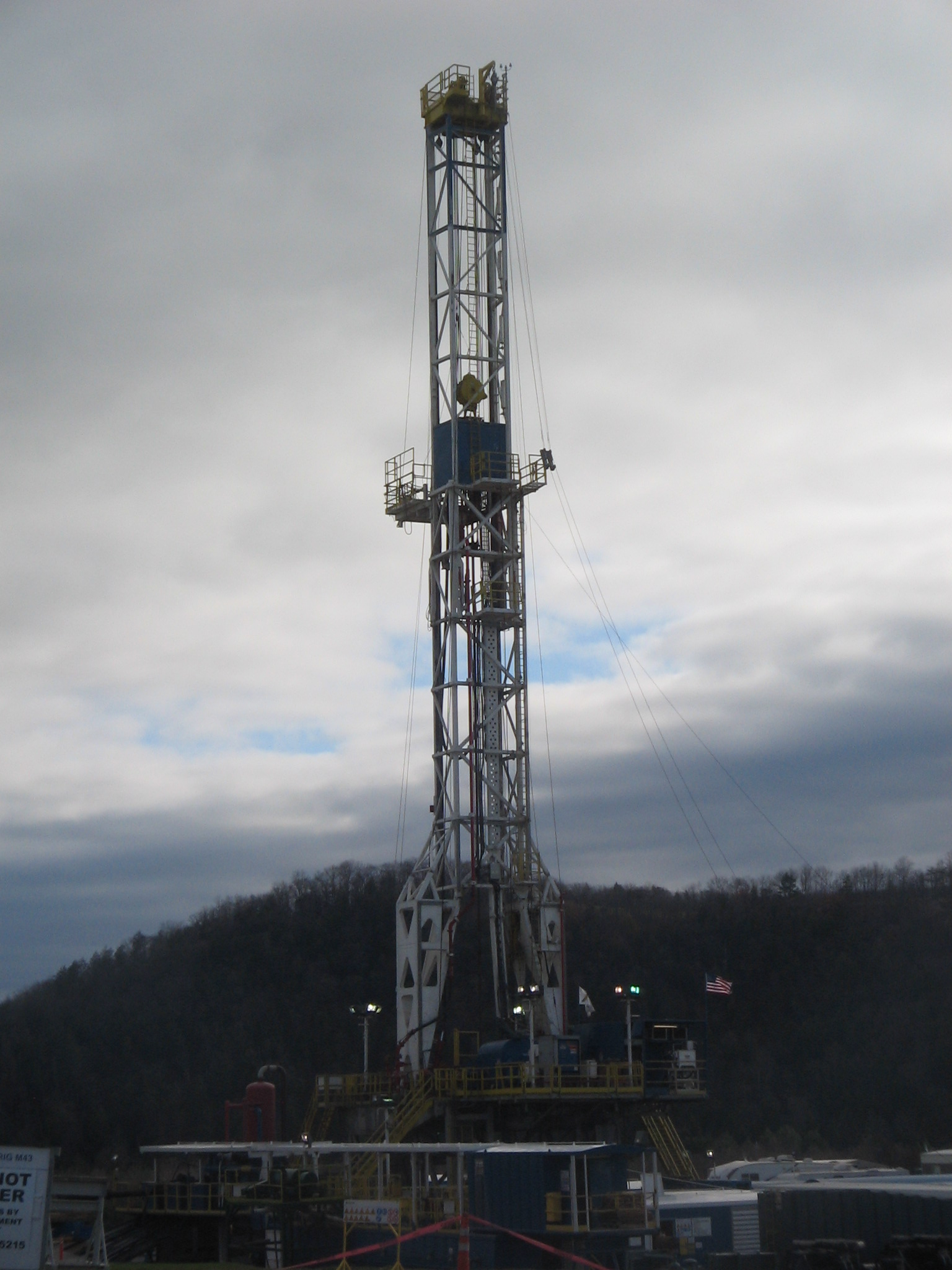 Detail of Tower for drilling horizontally into the Marcellus Shale Formation for natural gas, just north of Pennsylvania Route 118 in eastern Moreland Township, Lycoming County, Pennsylvania, USA